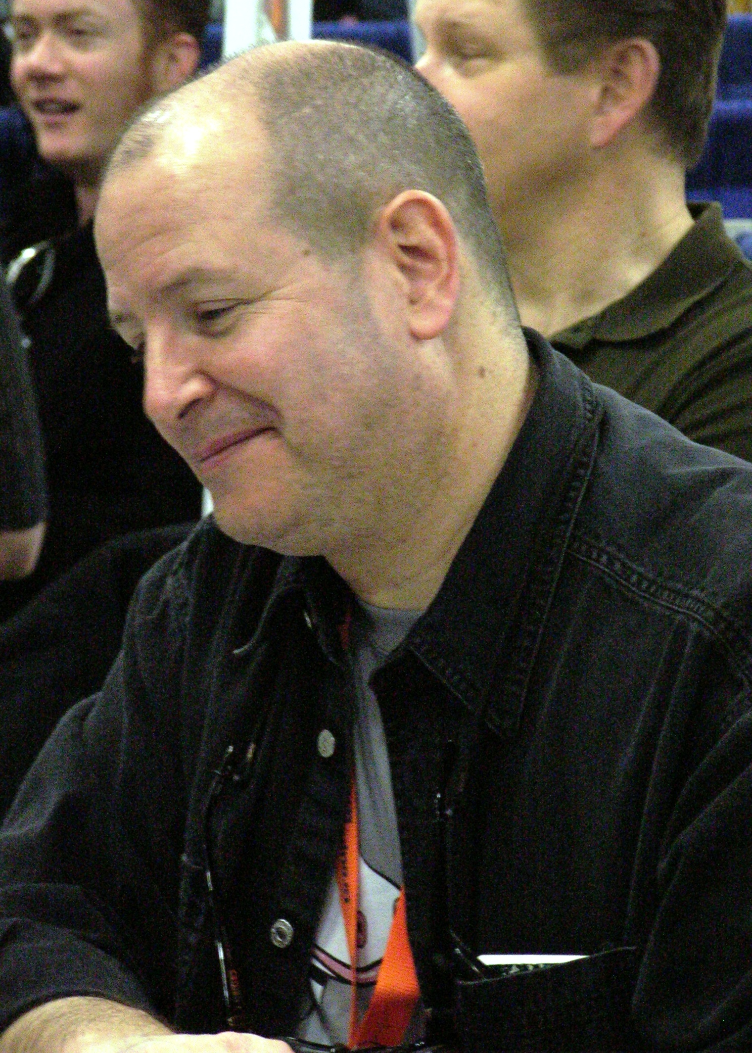 Mike Mignola at WonderCon 2009.